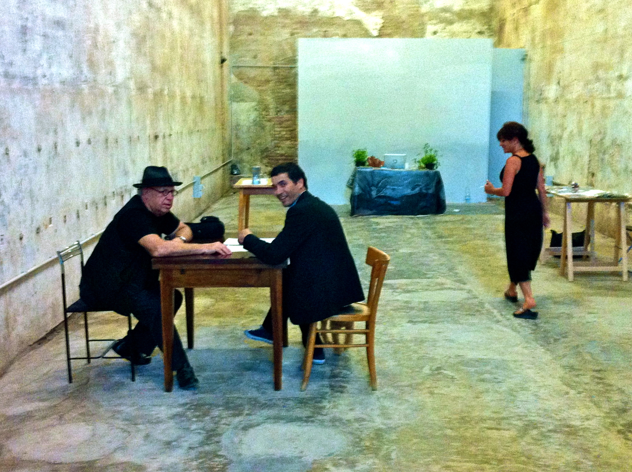 Joseph Kosuth,The Venice Biennale 2011 at Tomas Colaco's work (from left: Joseph Kosuth & Abdelah Karrum art piece in the middle by Tomas Colaco on the right - Sofia de Aguiar.)